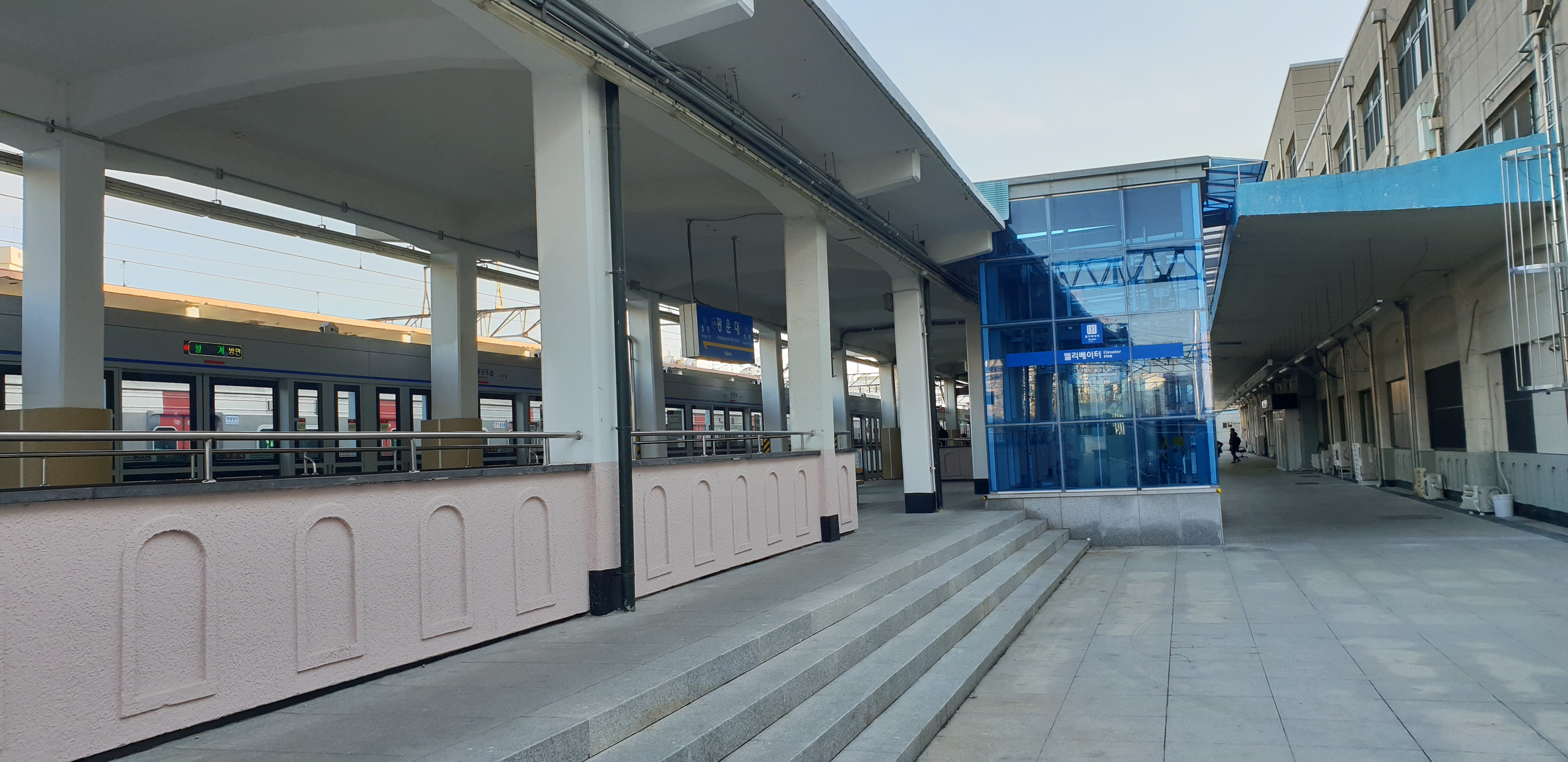 Seoul Metropolitan Subway Line 1 Kwangwoon Univ. Station Platform 1